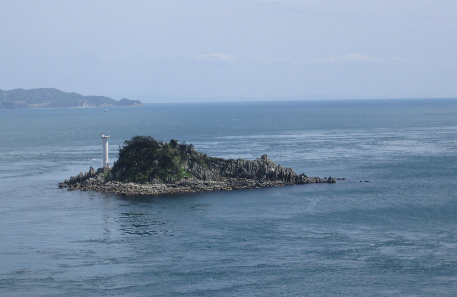 Tobishima island, Naruto, Tokushima Prefecture, Japan.